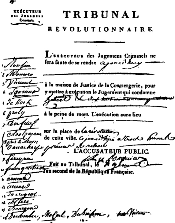 The Order of Execution of the Hébertists Issued by the Revolutionary Tribunal and signed by Fouquier-Tinville.